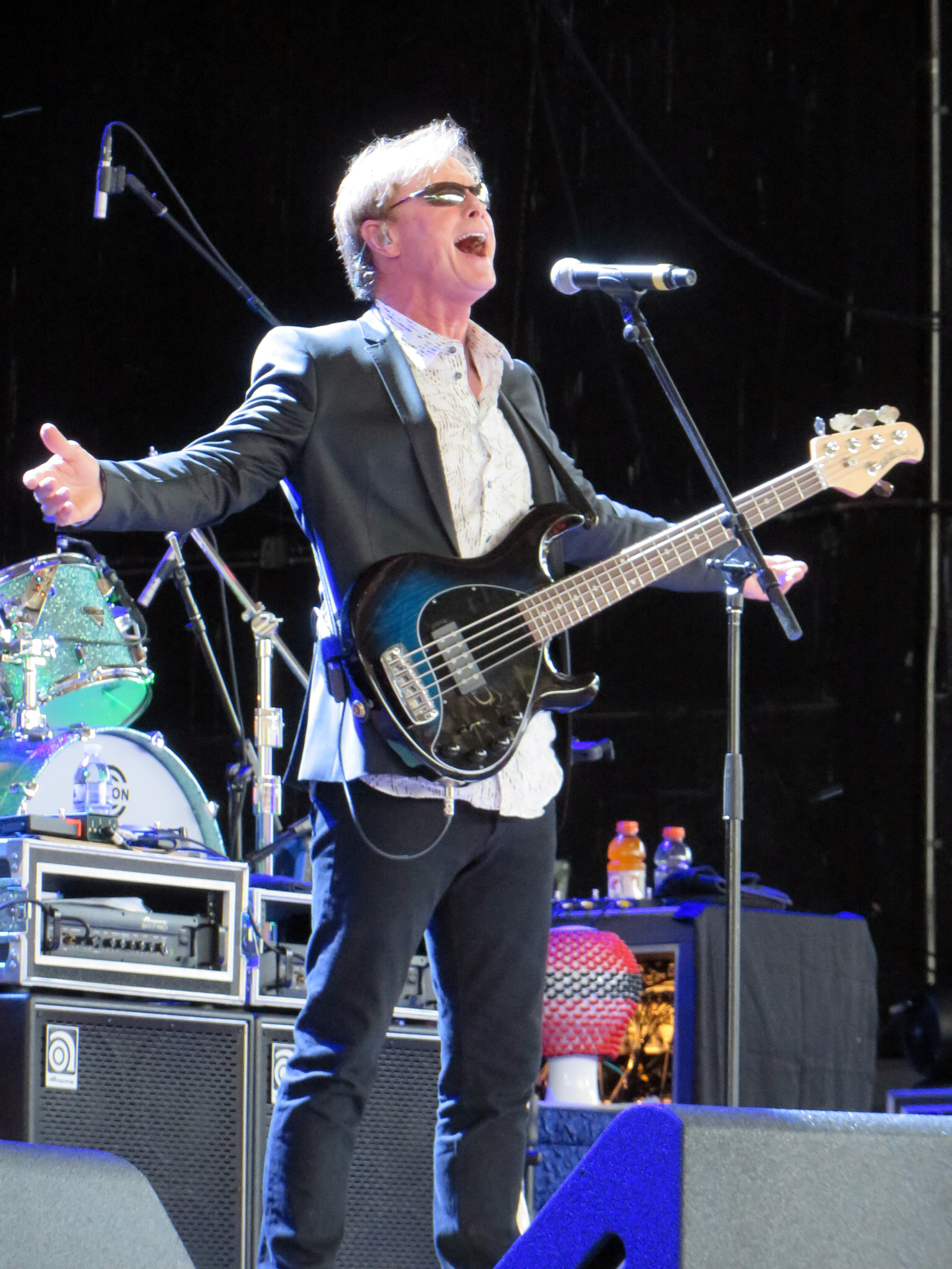 Richard Page performing with Ringo Starr & His All-Starr Band, Canandaigua, NY, June 7, 2014